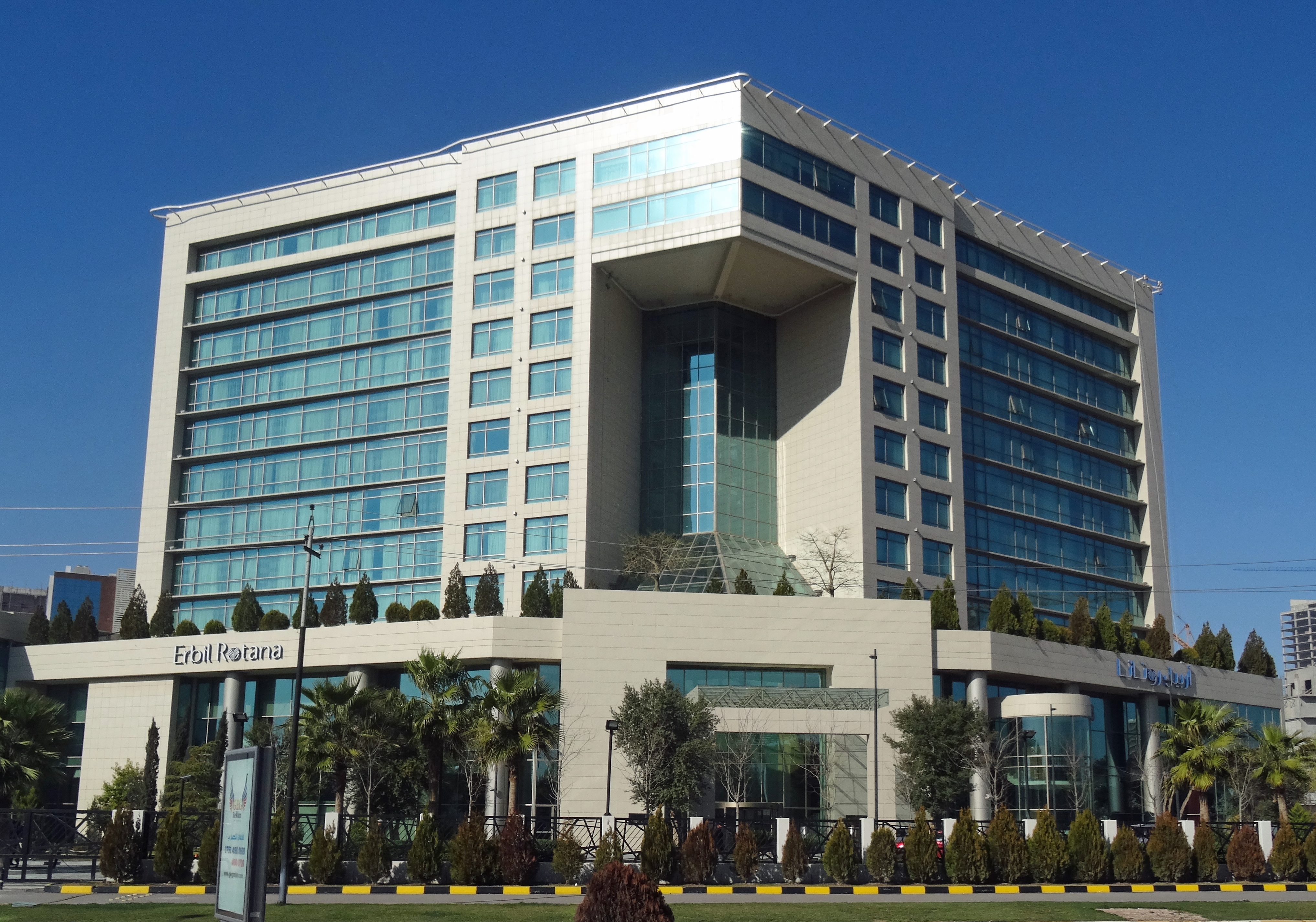 The Erbil Rotana Hotel, located on Gulan Street in Erbil, Iraq.